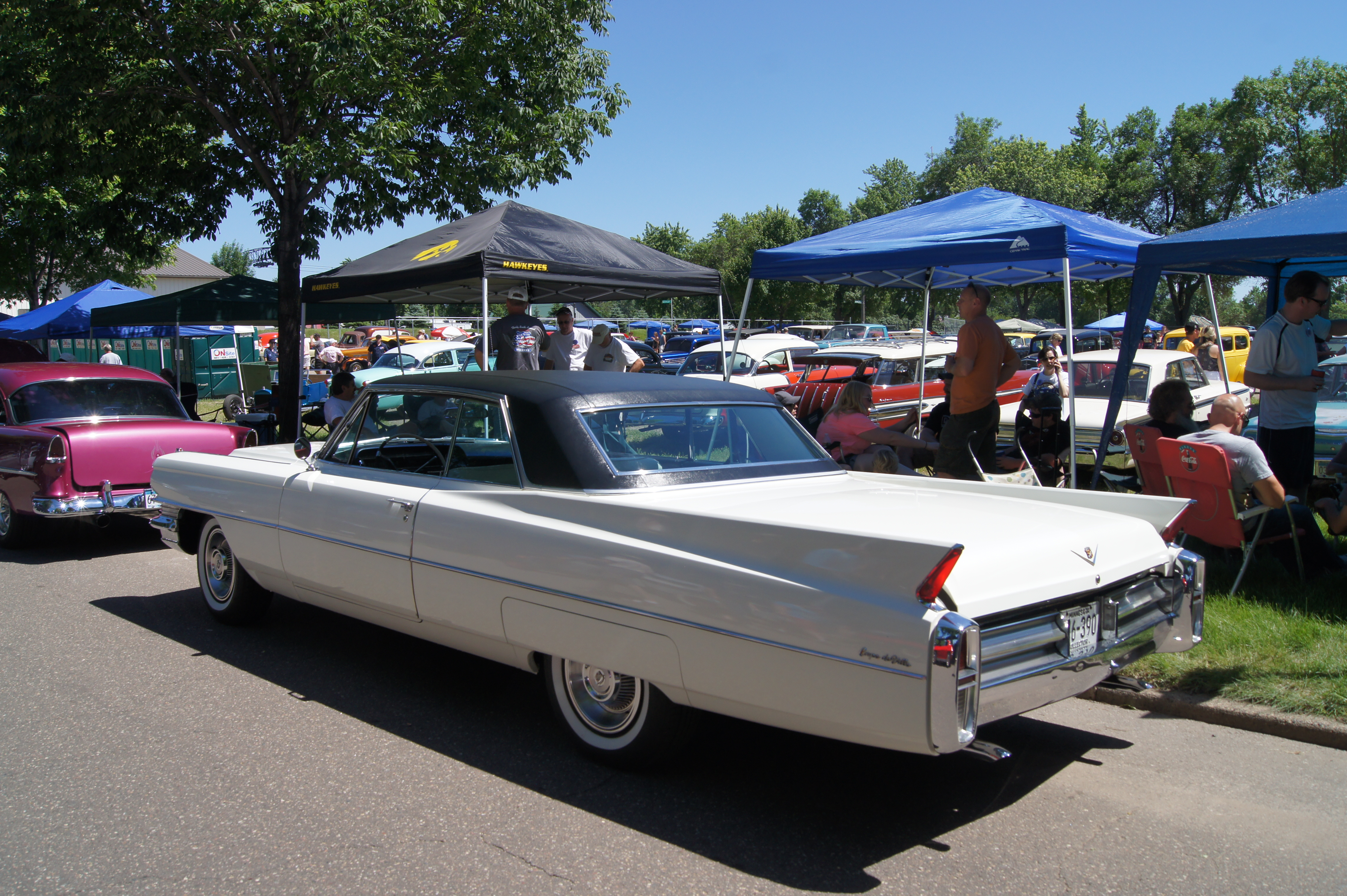 MSRA “BACK TO THE 50′s” 41st Annual June 20-22, 2014 State Fairgrounds St. Paul Minnesota More Car Pictures